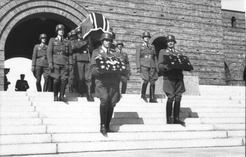 On 3 August 1944, Tannenberg Memorial (not exists anymore), East Prussia (now Poland), Reichsmarschall Göring attending the ceremony, Generaloberst Günther Korten's funeral, dead on 22 July 1944, because of his woundings after the bomb attack against Hitler on 20 July 1944.